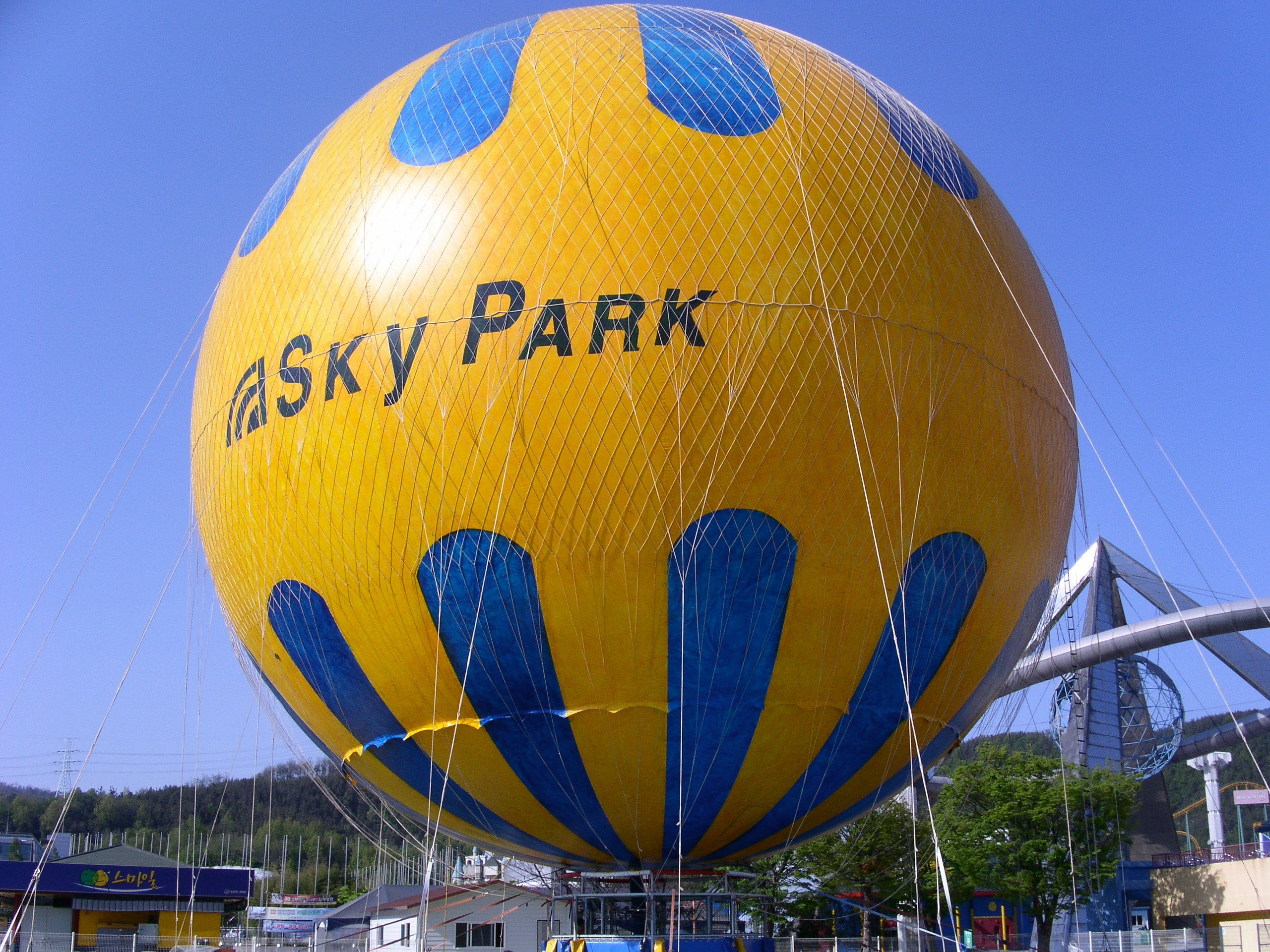 Photograph of the Sky Park helium balloon at the Expo Science Park in Daejeon, South Korea. It can hold up to 30 people and can rise up to 150m. The balloon is always tethered to the ground.